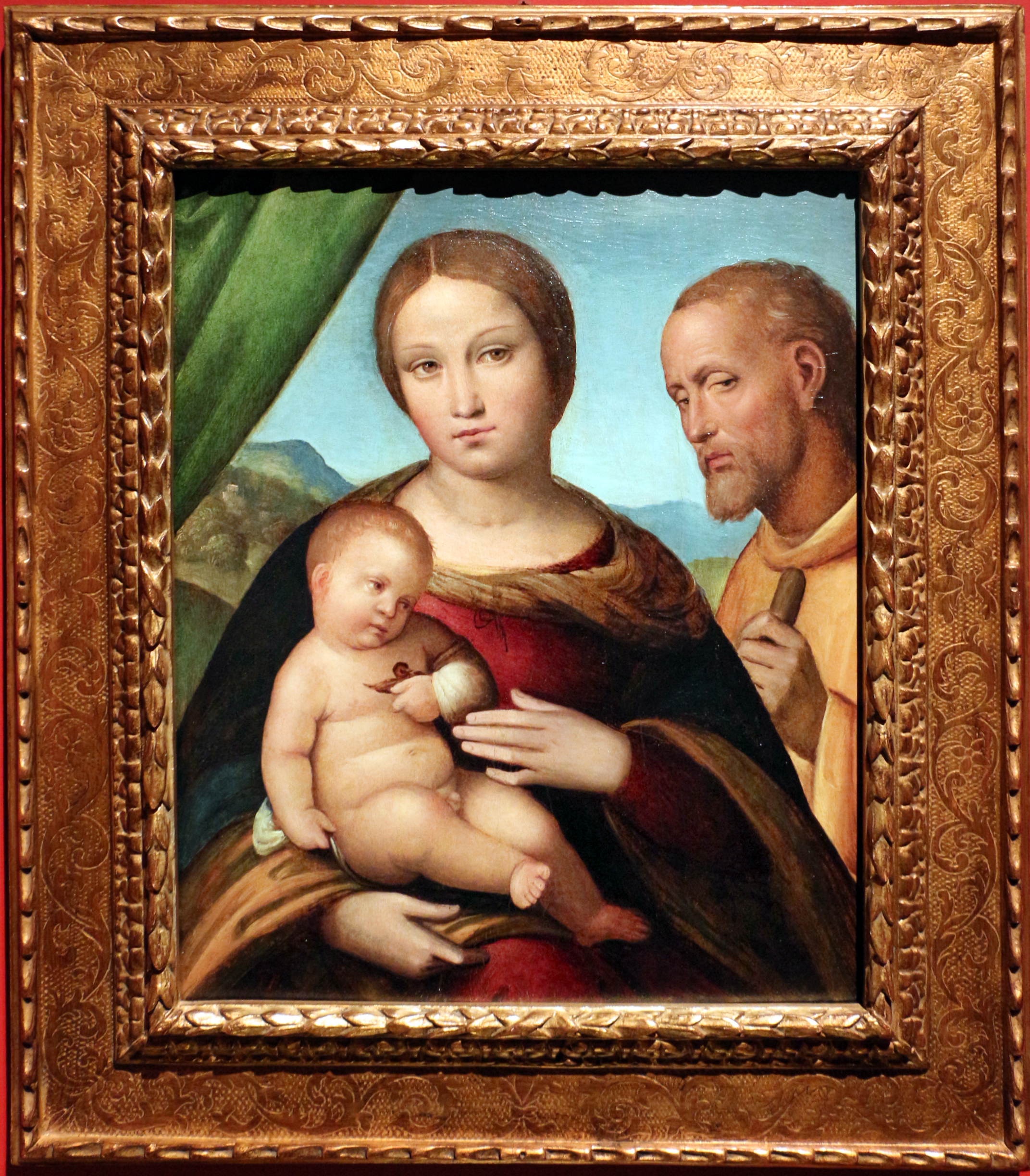 Fondazione Cavallini Sgarbi, on exhibition in Osimo (2016)